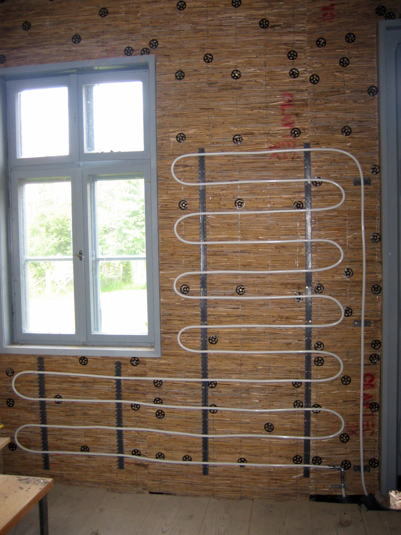 Wallheating pipes on bast fibre insulation. The Pipes are made of a aluminium-plastic-combination.